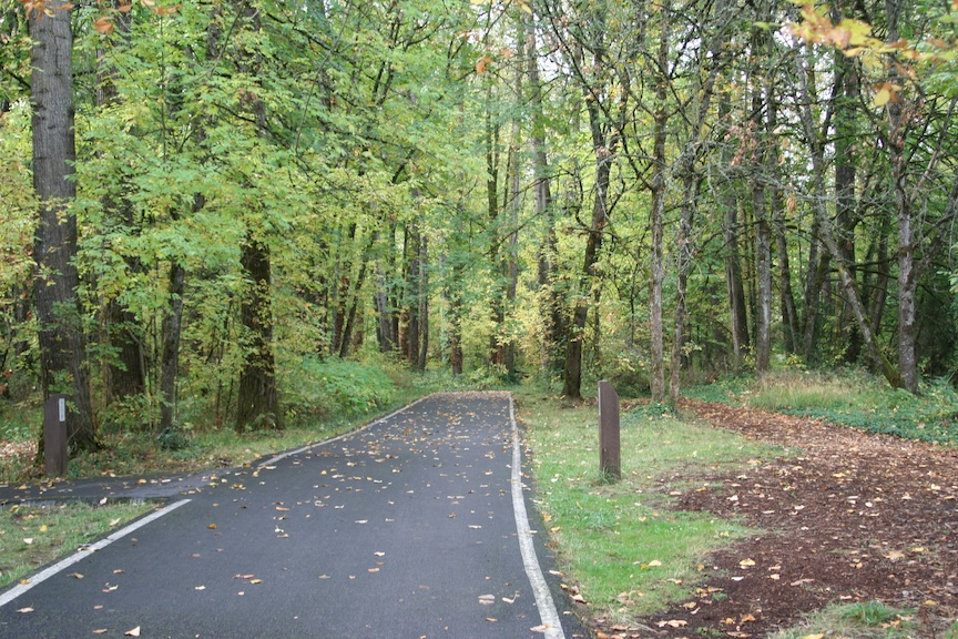 Picture of the North Bank Bike Path, Pre's Trail, and a walking path In Eugene/Springfield Oregon's Alton Baker Park Eastgate woodlands area near the start of the canoe canal.